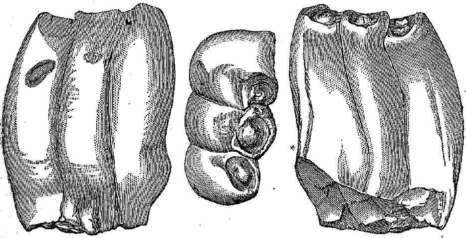 Desmostylus hesperus tooth, Marsh 1888 - Notice of a new fossil sirenian, from California.pdf